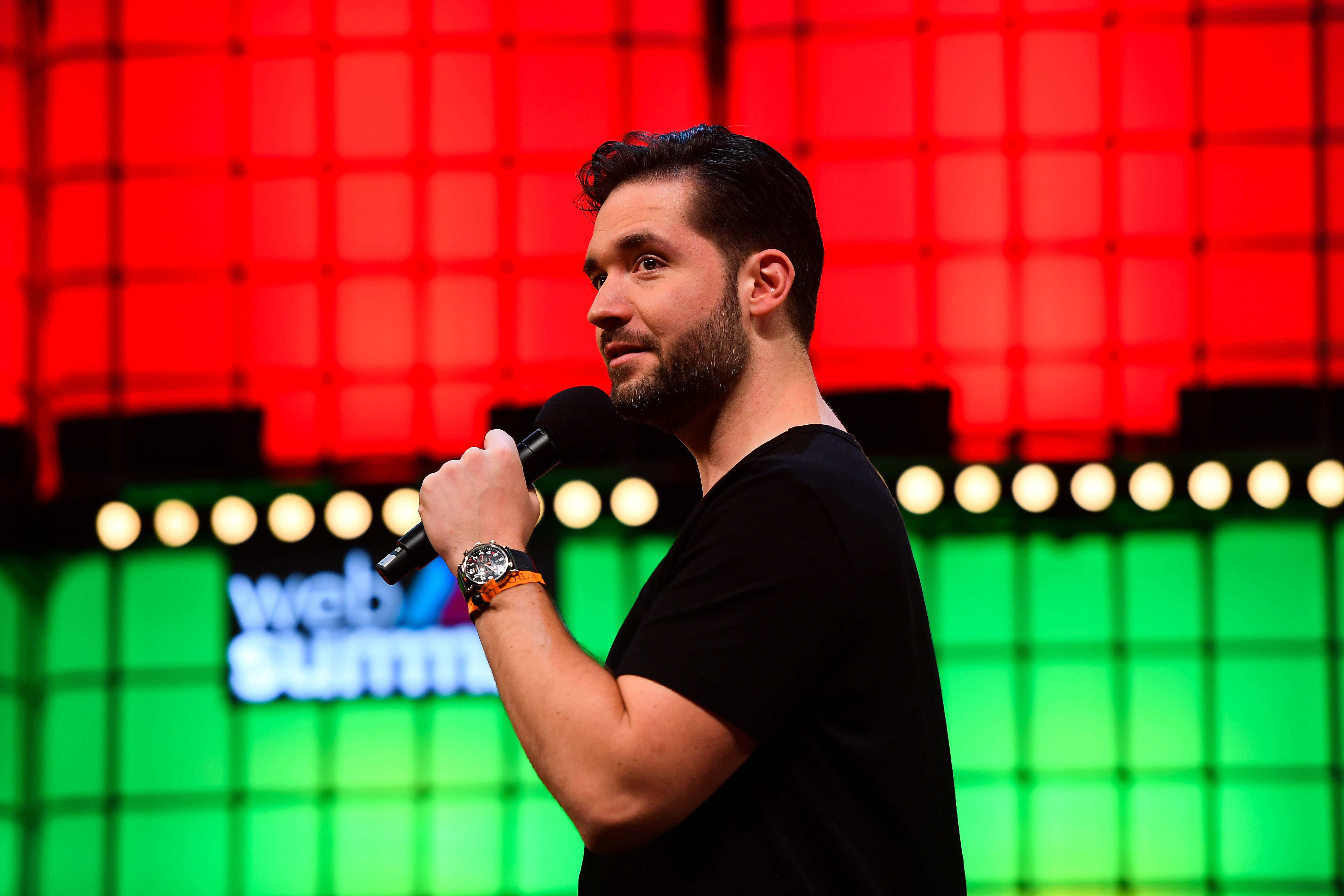 6 November 2018; Alexis Ohanian, Reddit on Centre Stage during the opening day of Web Summit 2018 at the Altice Arena in Lisbon, Portugal. Photo by Seb Daly/Web Summit via Sportsfile